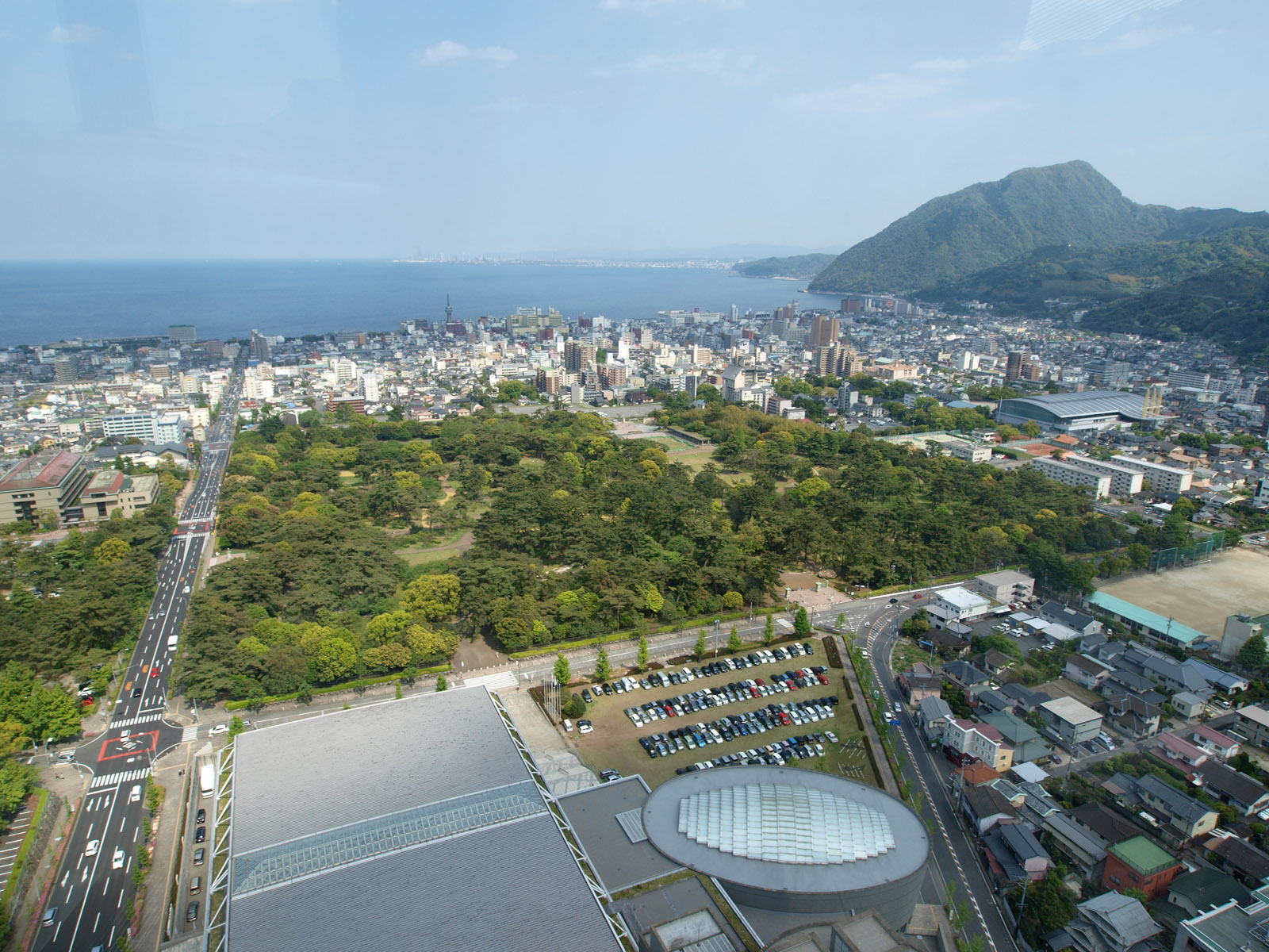 Beppu Park, Beppu City, Oita Prefecture